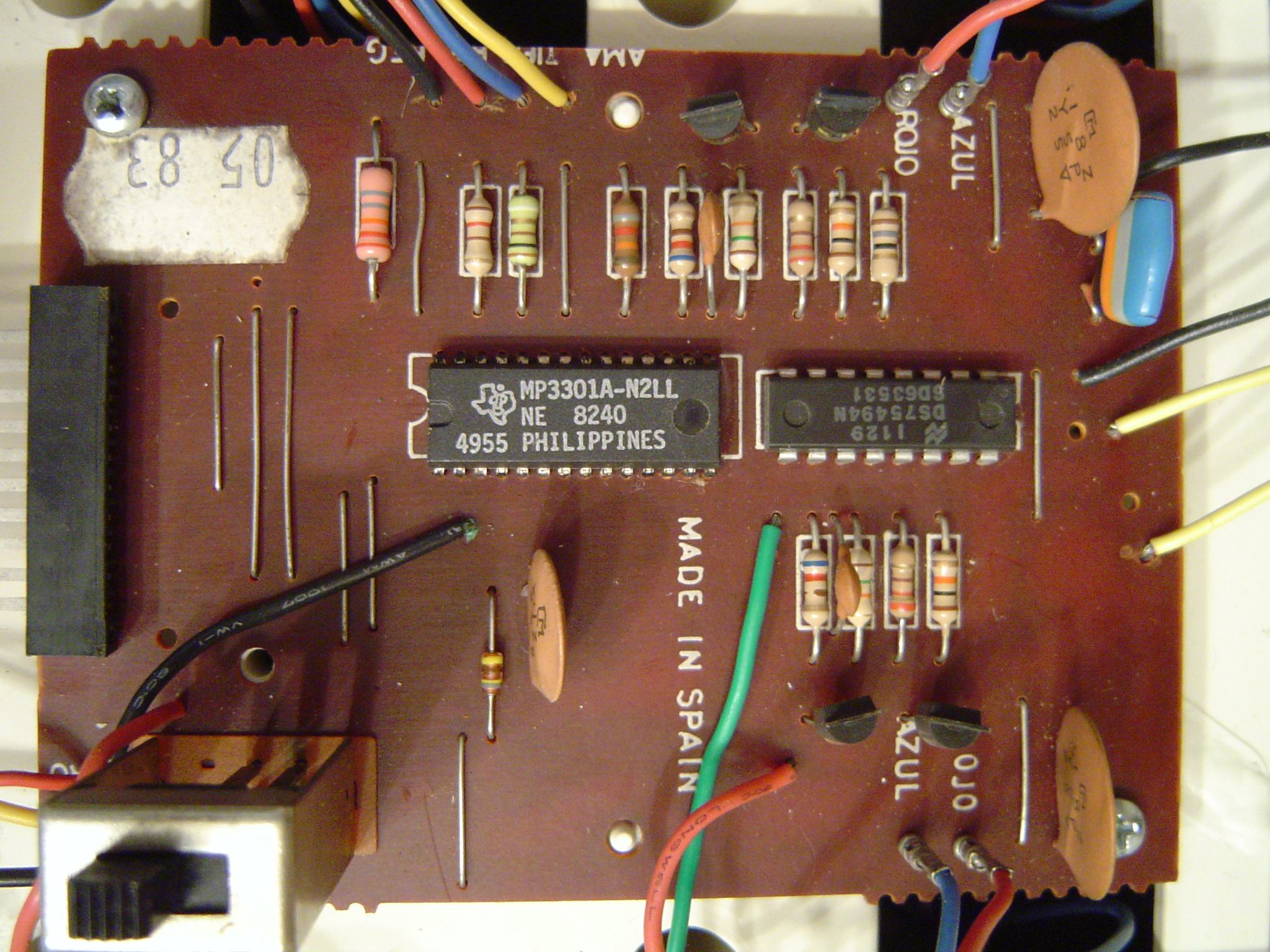 Mother Board of "Big Trak"